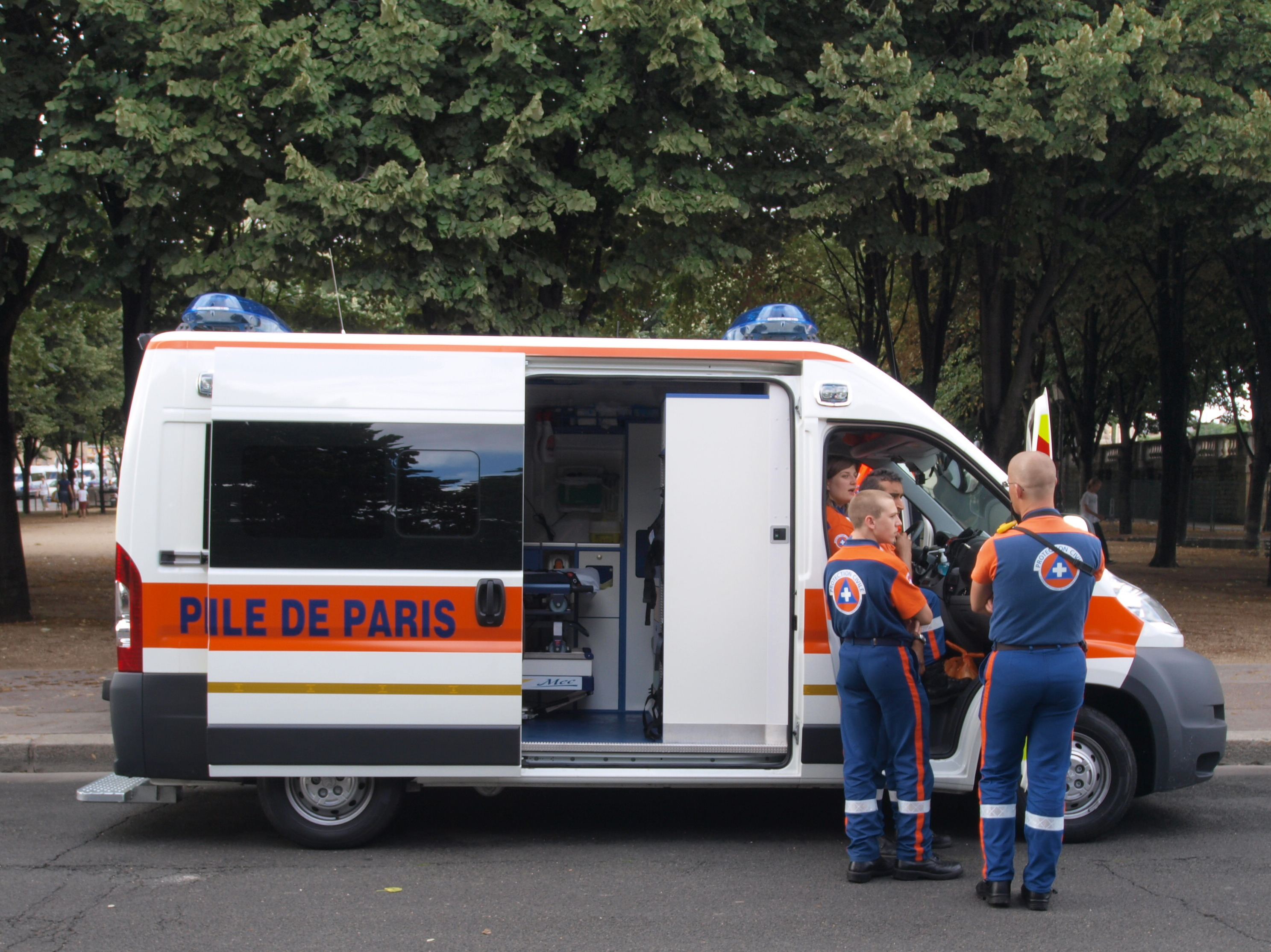 Photographed in France.